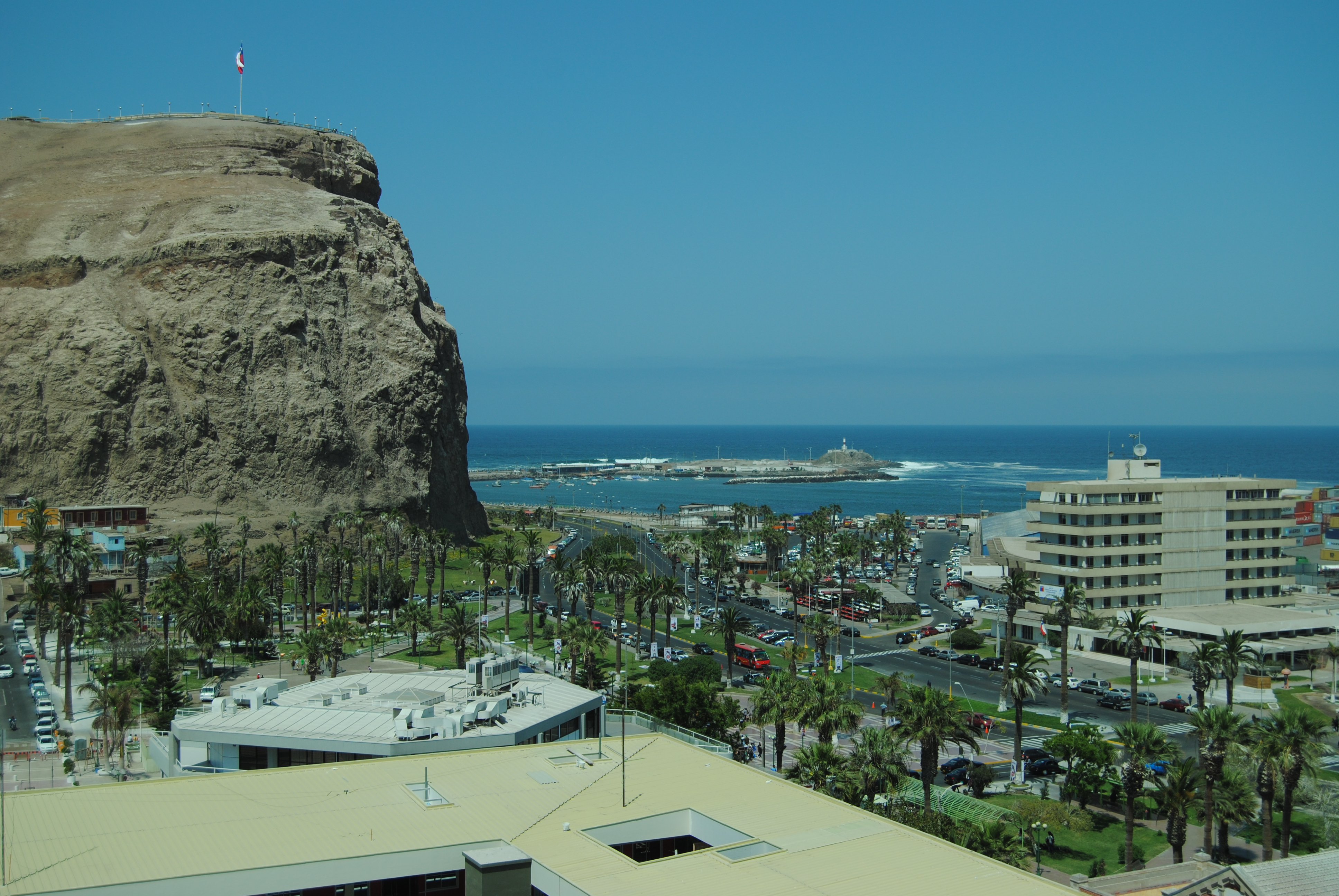 The nose of Arica, view from the tallest building in the city.